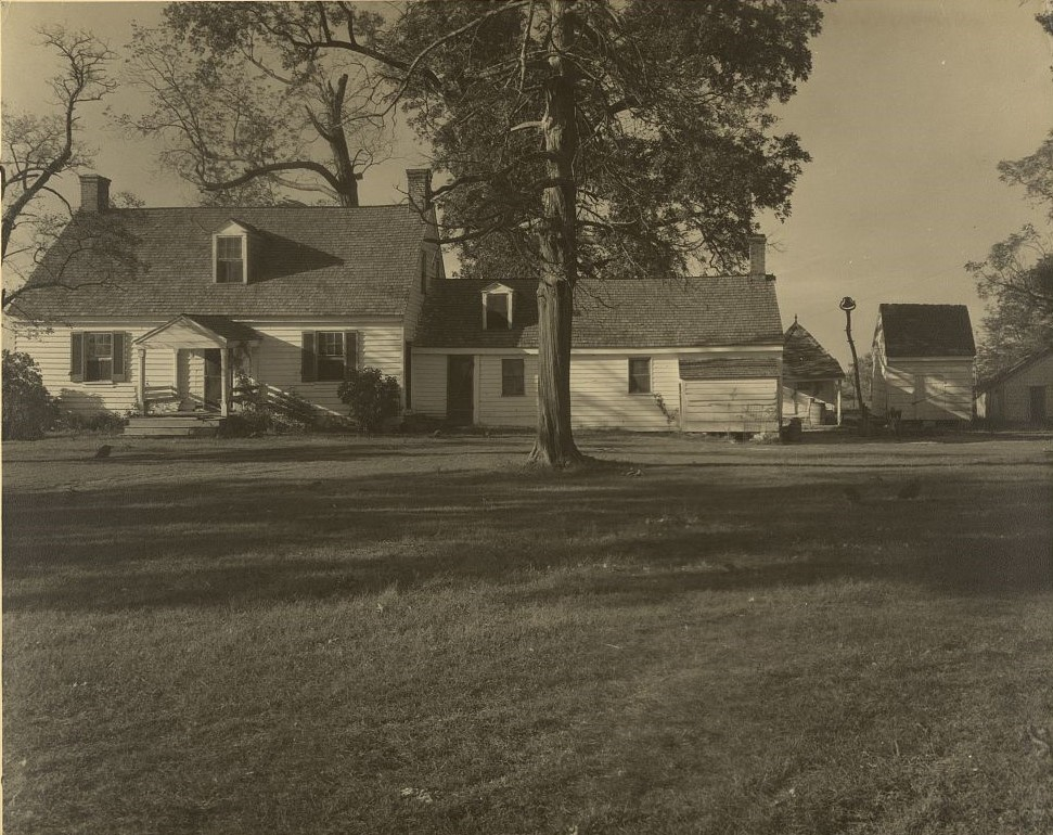 Title West Martingham, St. Michaels, Talbot County, Maryland Contributor Names Johnston, Frances Benjamin, 1864-1952, photographer Created / Published 1936-37. Subject Headings - United States--Maryland--Talbot County--St. Michaels. - Wings (Building divisions). - houses - Outbuildings. - Maryland--Talbot County--St. Michaels Format Headings Photographic prints. Notes - Title from photographer's inventory. - Building/structure dates: 1659. - Original Carnegie Survey of the Architecture of the South neg. no. is MD-1303. Library has no record of having this negative. - No reference print found in LOT 11837-21. - Forms part of: Carnegie Survey of the Architecture of the South (Library of Congress). Medium 1 photographic print : b&w ; 16 x 20 in. Call Number/Physical Location LOT 12648-11 [item] [P&P] Repository Library of Congress Prints and Photographs Division Washington, D.C. 20540 USA Digital Id csas 01934 //hdl.loc.gov/loc.pnp/csas.01934 Control Number csas200801950 Reproduction Number LC-DIG-csas-01934 (digital file from exhibition print) Rights Advisory No known restrictions on publication. Online Format image Description 1 photographic print : b&w ; 16 x 20 in.